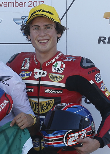 Joe Roberts on the podium of the 2017 CEV Moto2 Valencia II race.